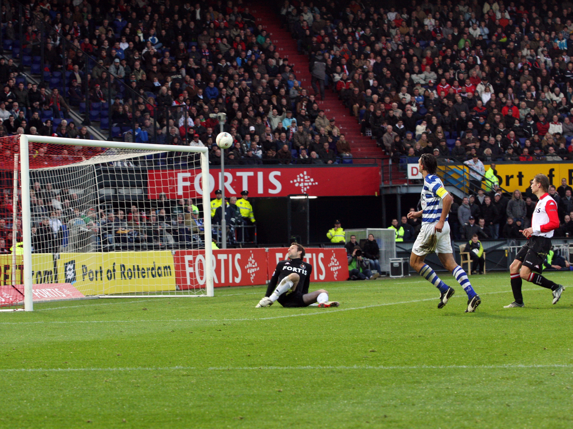 Feyenoord - De Graafschap Eredivisie